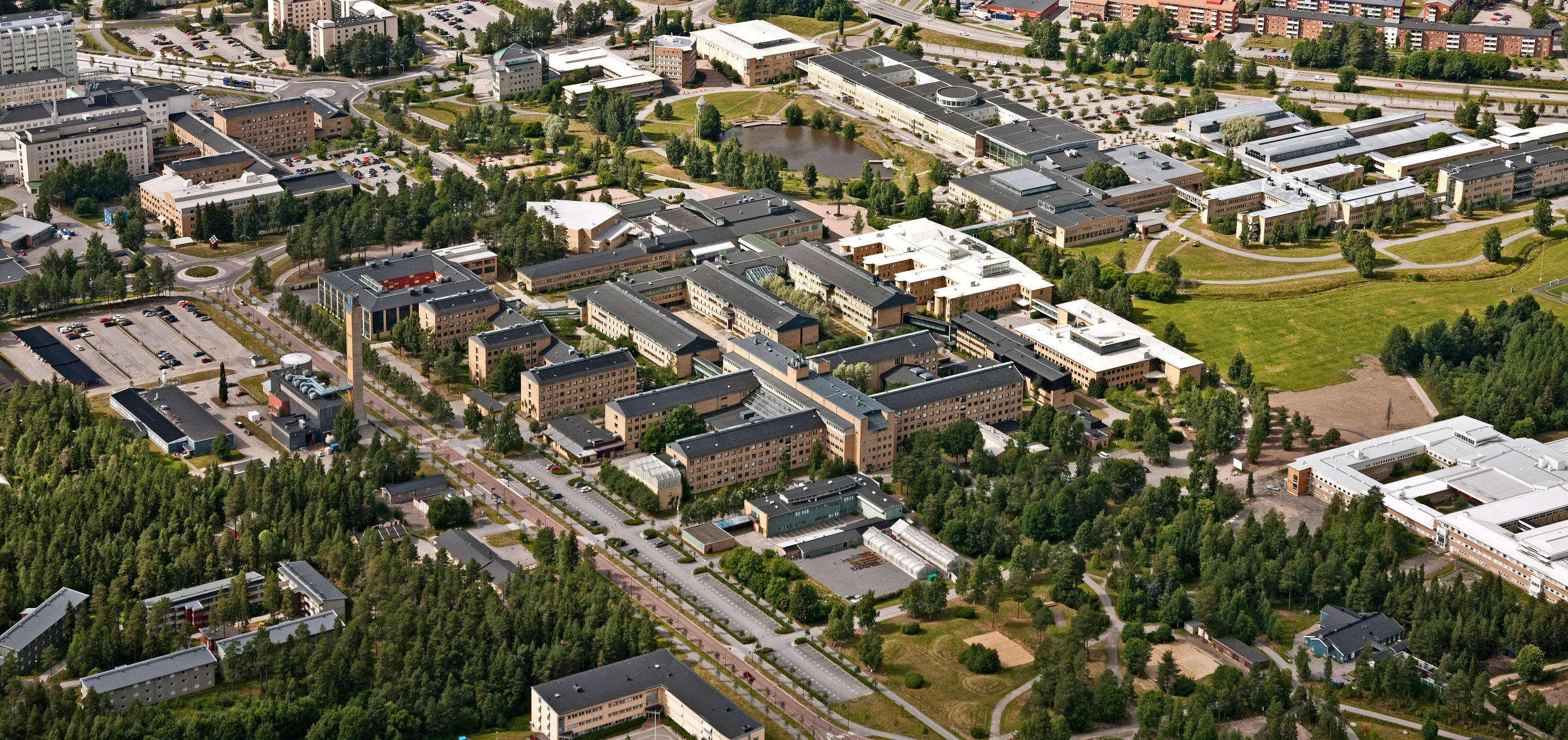 Umeå University campus with the Norrland's University Hospital up in the left and the Swedish University of Agricultural Sciences bottom right.